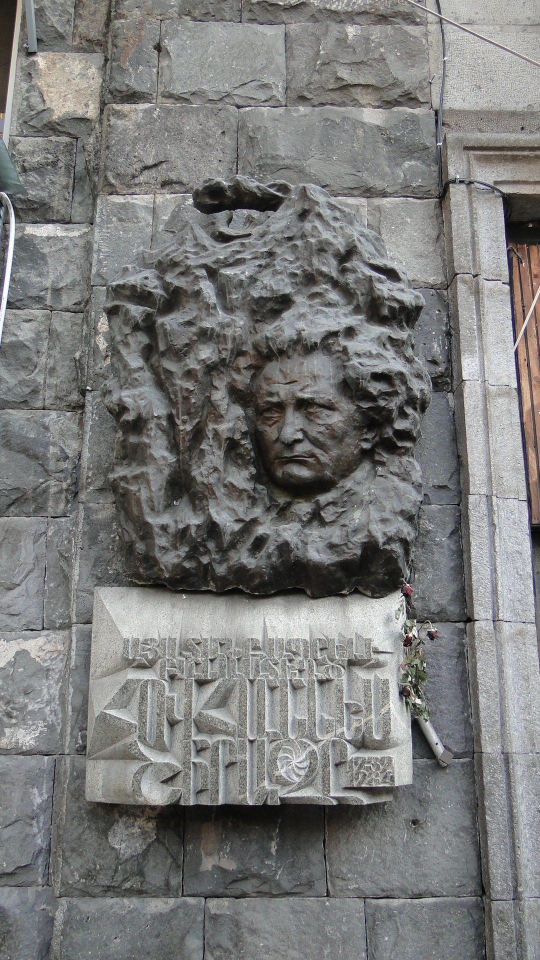 Memorial plaque of Hovhannes Shiraz in Yerevan